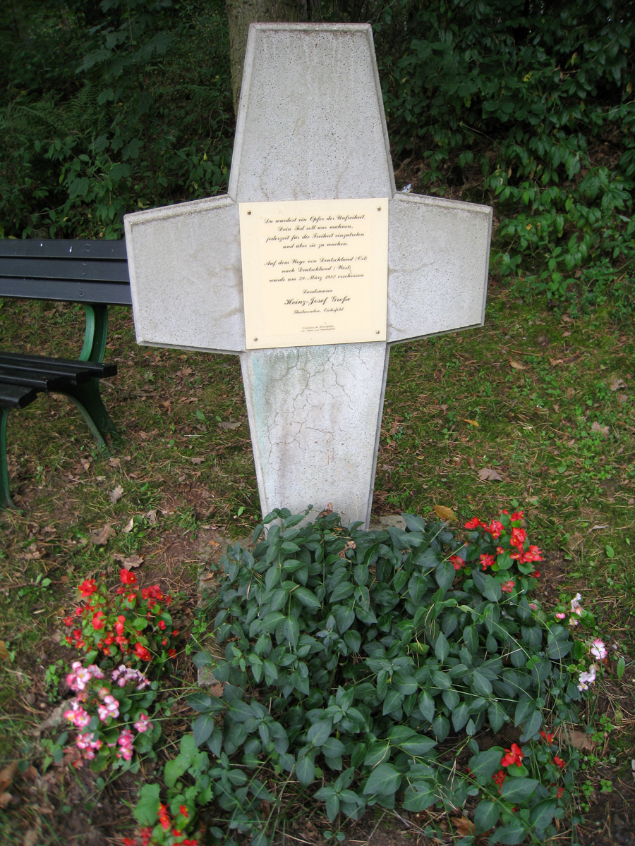 Memorial to Heinz-Josef Große, killed on the inner German border on 29 March 1982.